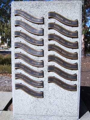 Category:Images of Canberra Royal Australian Navy Memorial Battle Honours (right) I took this picture on 28 April 2005. Peter Ellis 04:50, 1 May 2005 (UTC)